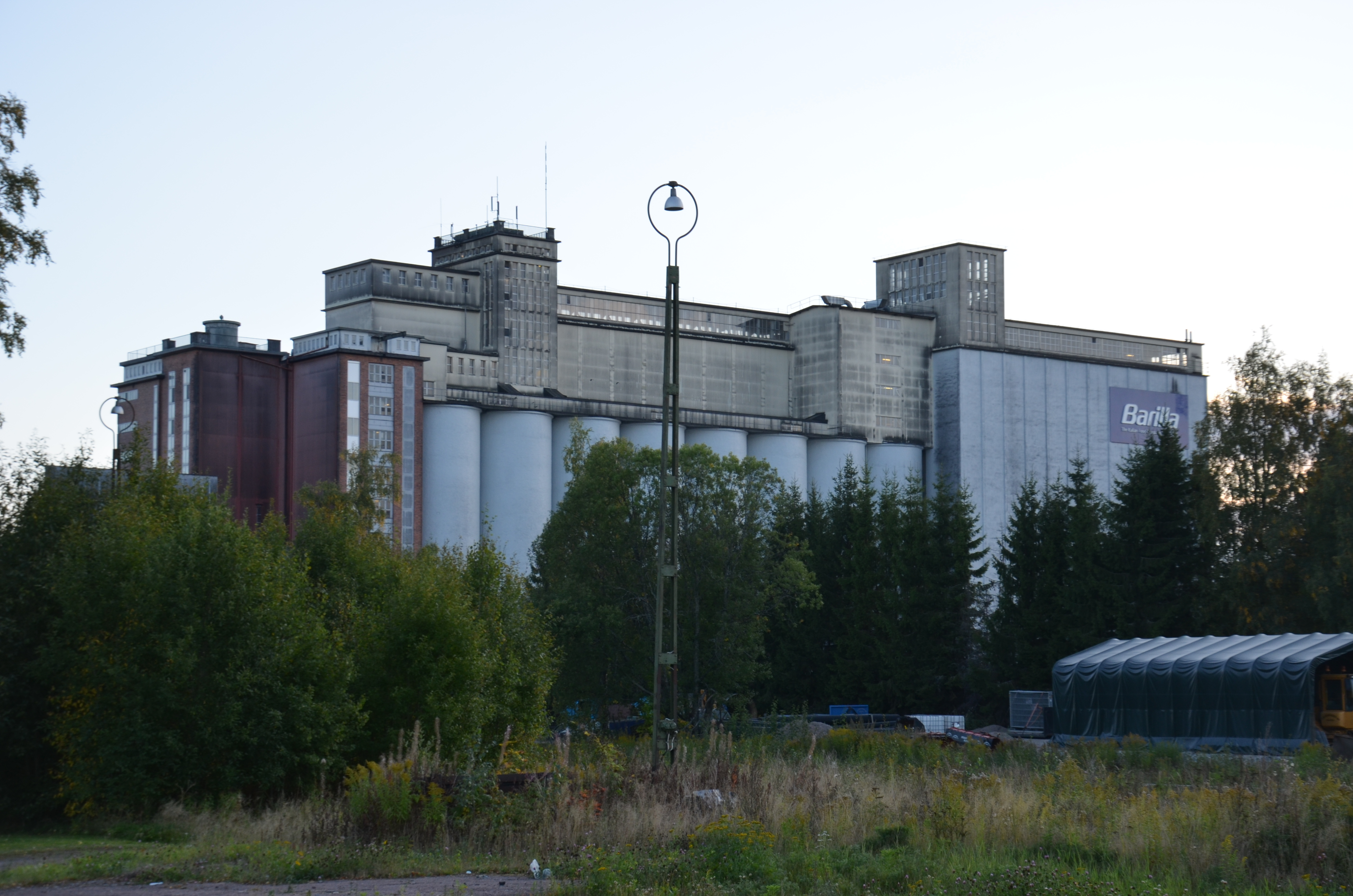 Wasbröd factory in Filipstad, Sweden